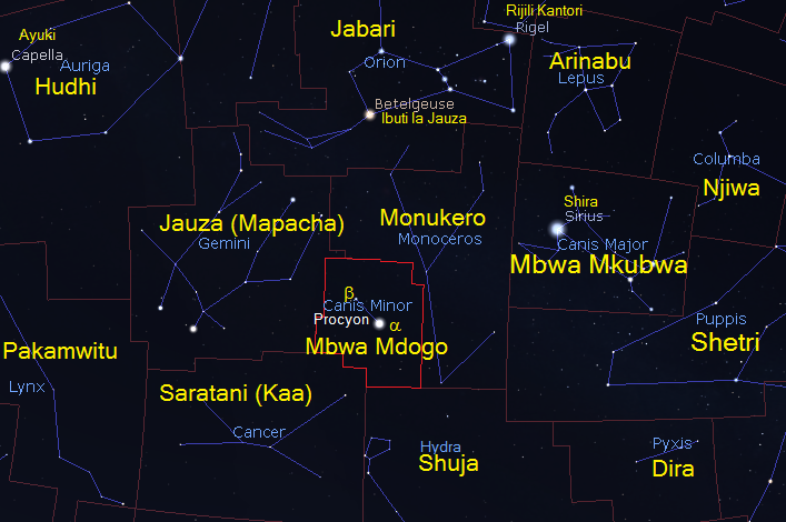 Constellation Canis Minor as seen from Tanzania, Swahili labelled Kiswahili: Kundinyota Mbwa Mdogo (Canis Minor) jinsi inavyoonekana kutoka Tanzania, majina kwa Kiswahili